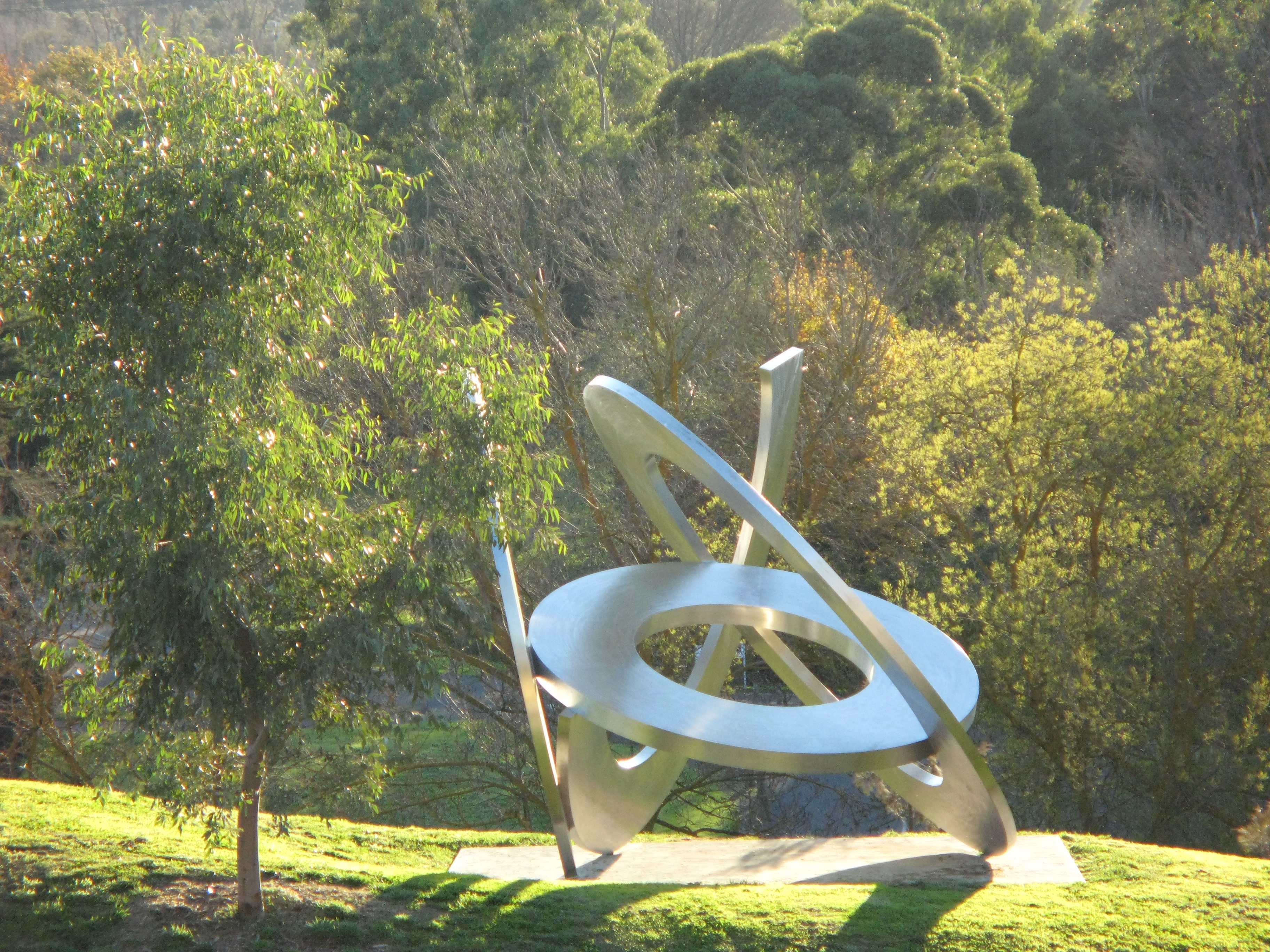 "Rings of Saturn" by Inge King, 2005-06, as displayed in the gardens at the Heide Museum of Modern Art in Bulleen, Melbourne, Australia, viewed from Heide I. Photo taken by Nick carson in June 2009.